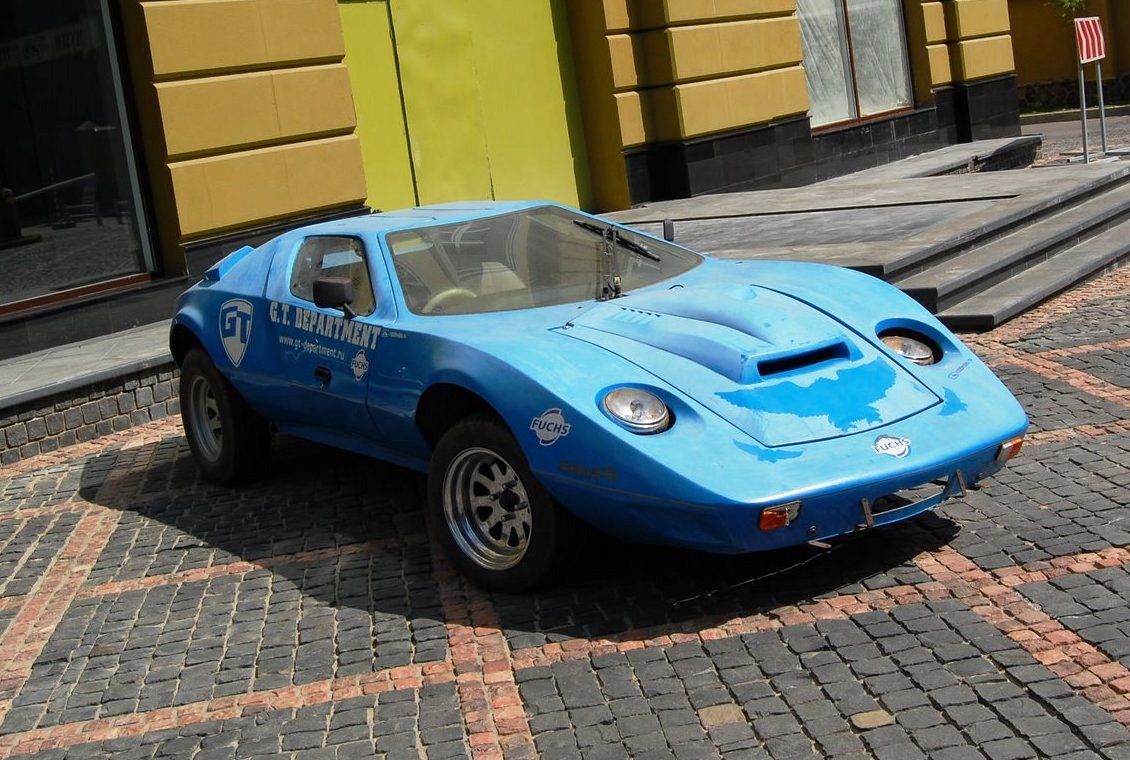 Eagle SS kit car.